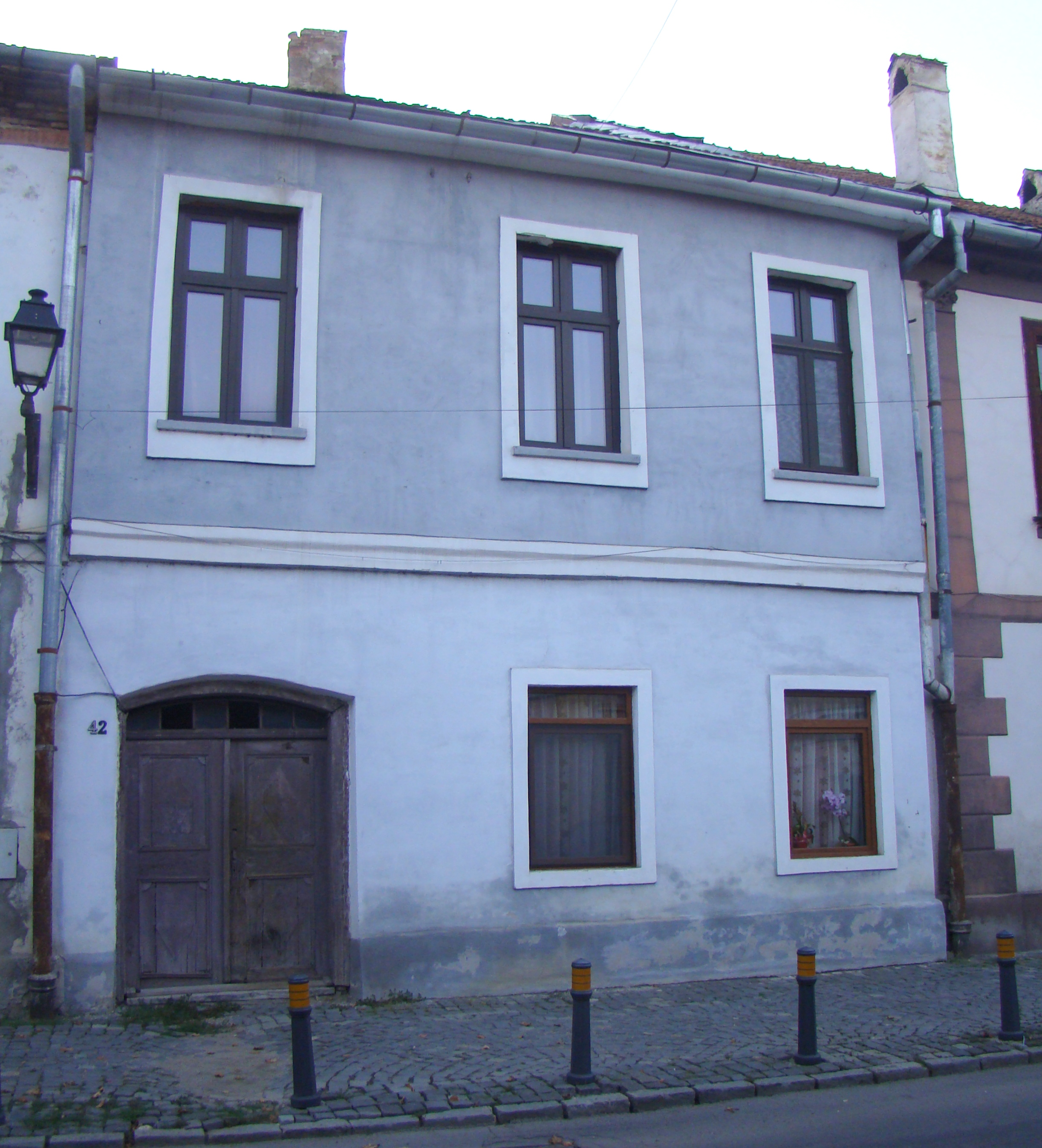 House, historic monument, in Bistrița, Nicolae Titulescu street 42